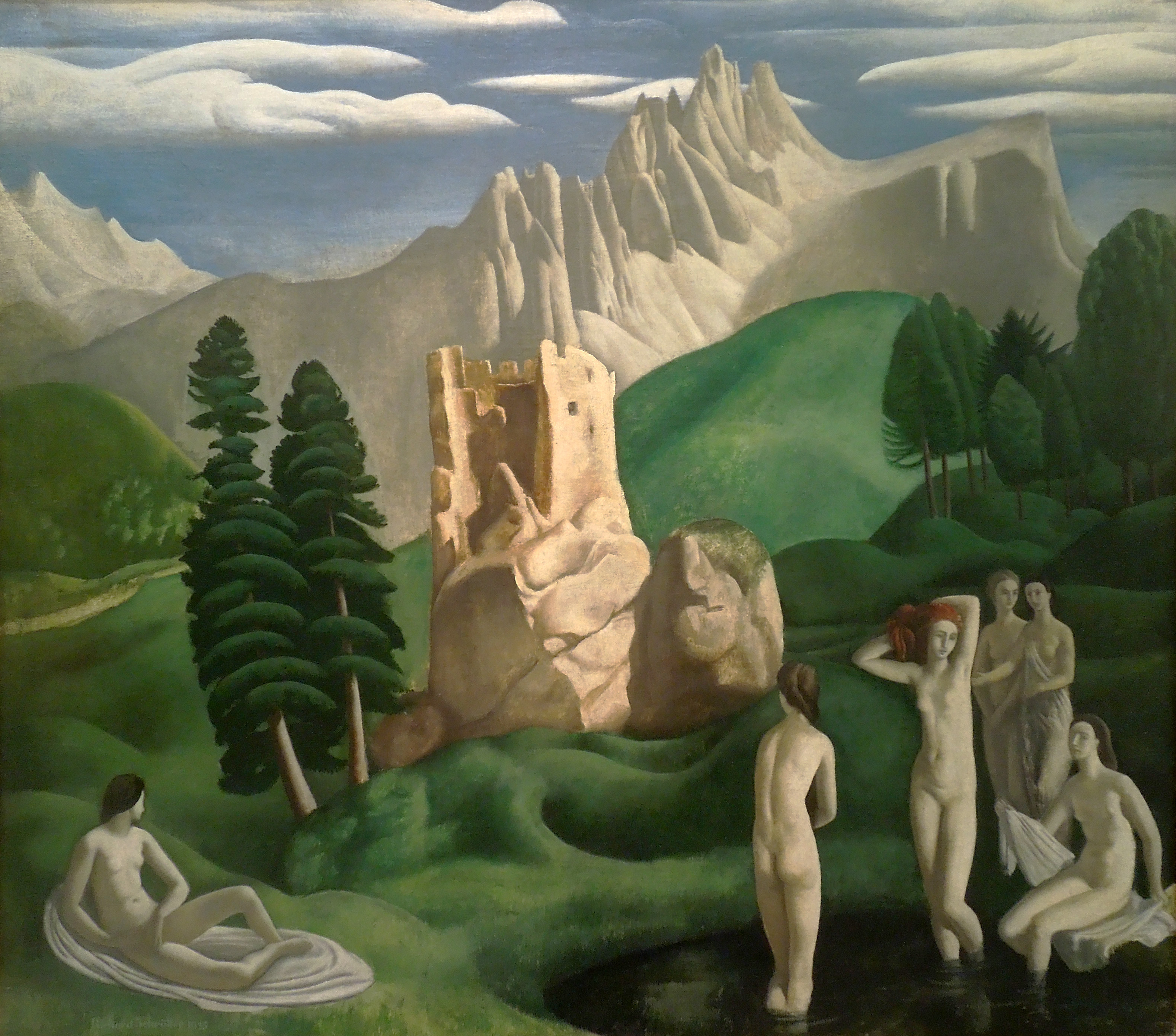 Richard Schrötter - Landscape with Women Bathers, 1925, oil on canvas